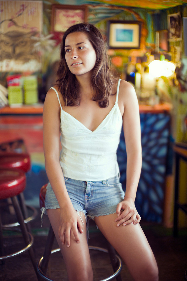 People are fascinating.